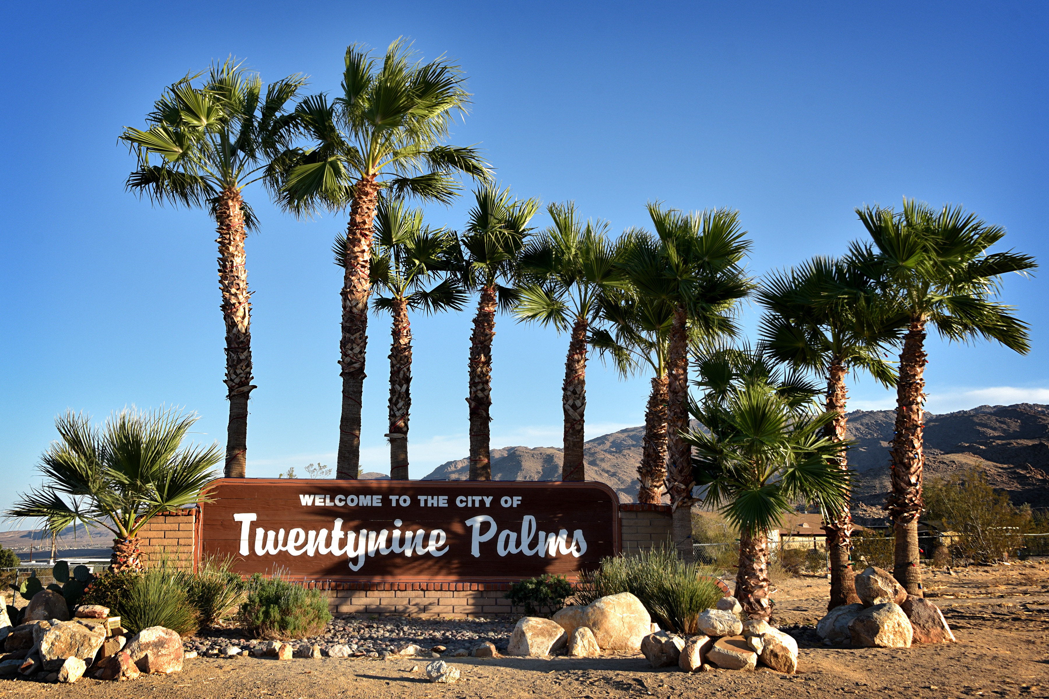 29 Palms Sign - Photo by Glenn Francis of